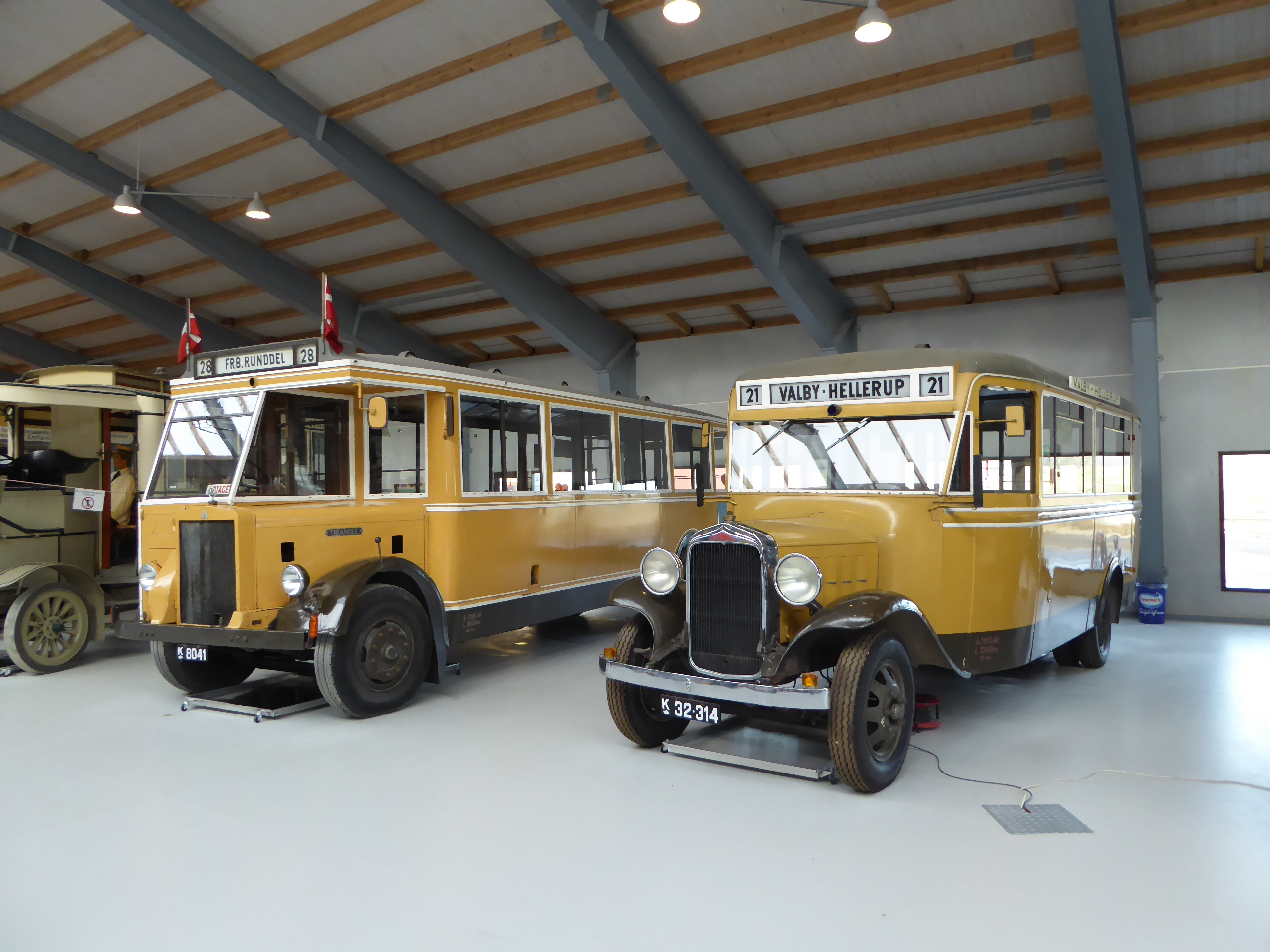 Old buses from Copenhagen, KS 41 build in 1933 and KS 314 build in 1934 in the bus exhibition hall at Sporvejsmuseet Skjoldenæsholm in Denmark.